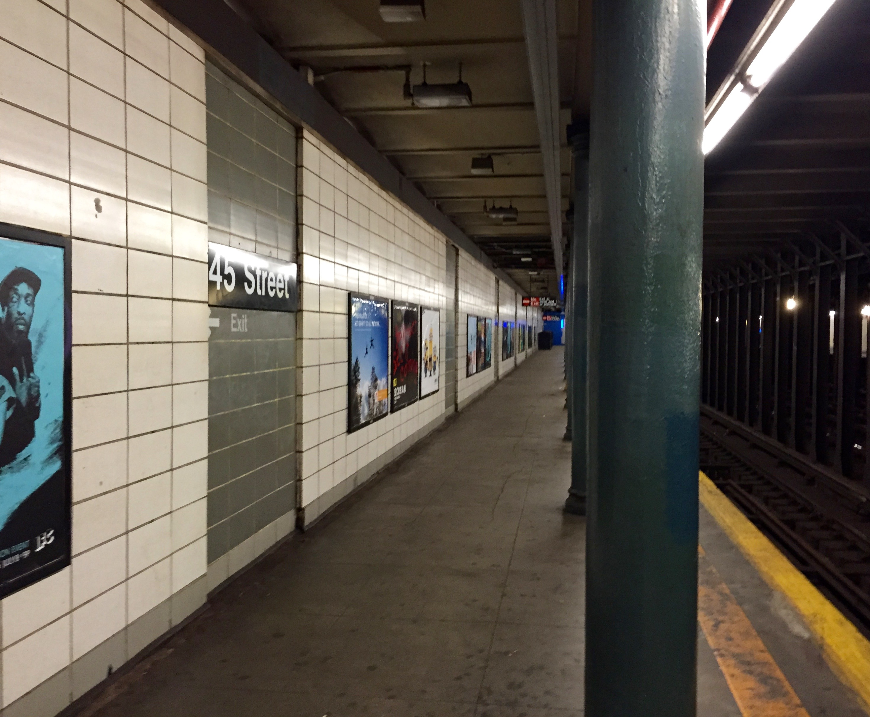 Uptown platform at 45th Street on the R.